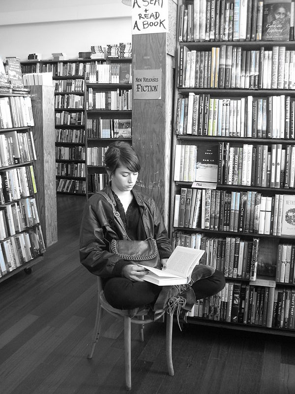 USF student, Christie Hayden, at City Lights Bookstore